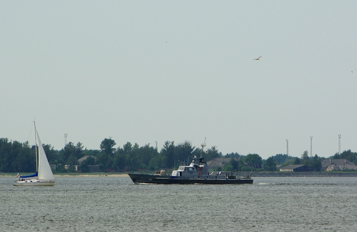 PVL-106 Maru underway in Tallinn Bay 25 July 2012